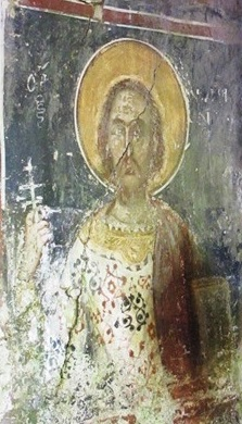 Saint Nicholas Church Fresco 01